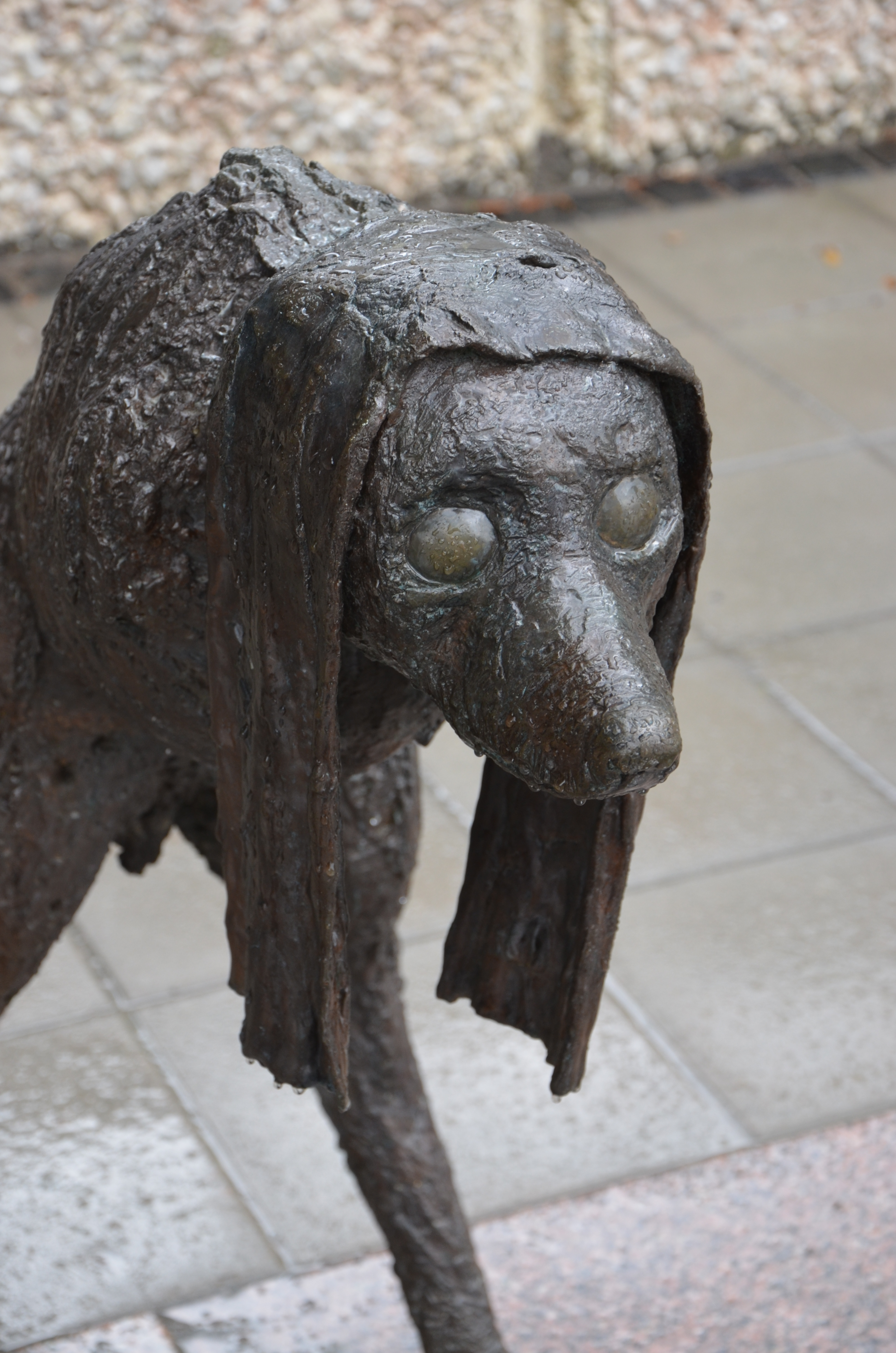 Tilda Lovells Fauna, Kulturhuset i Borås